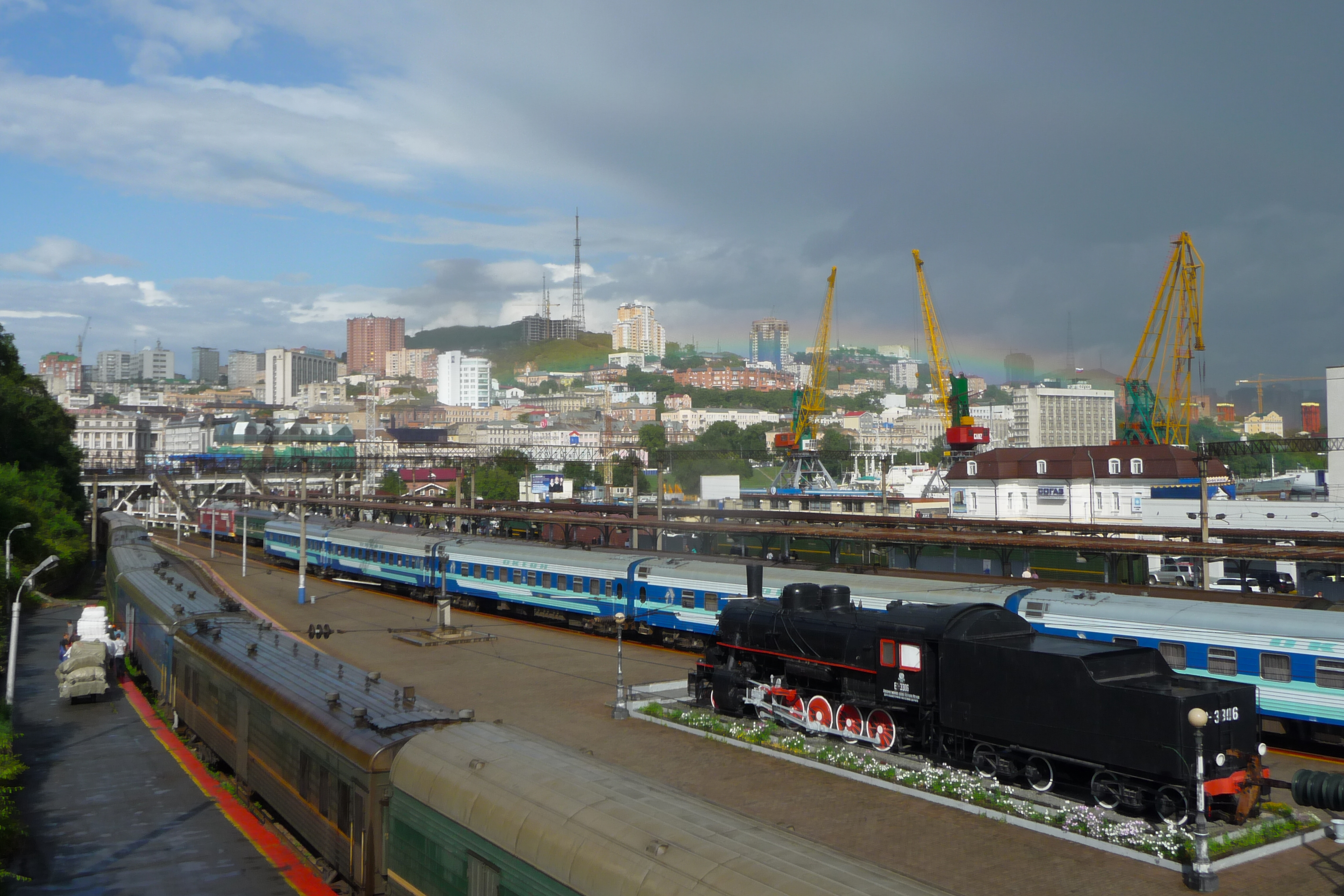 Rainbow over the end of the Transsiberian Railway in Vladivostok (Primorsky Krai, Russia).